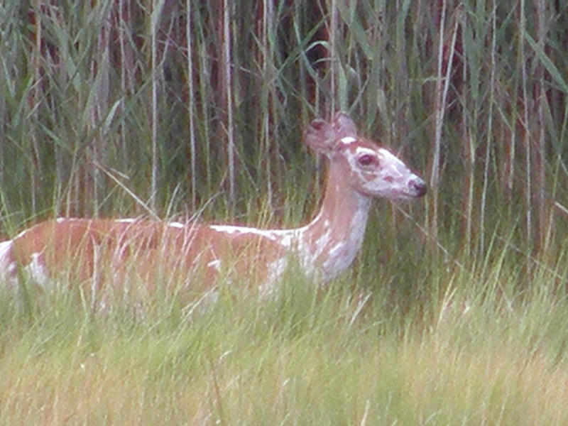 Piebald Deer. Image taken in Hampton Virginia